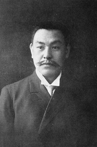 Taichi Kitajima